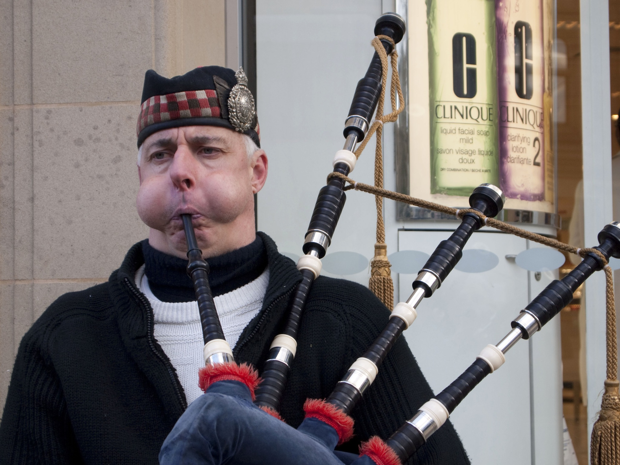 Street life